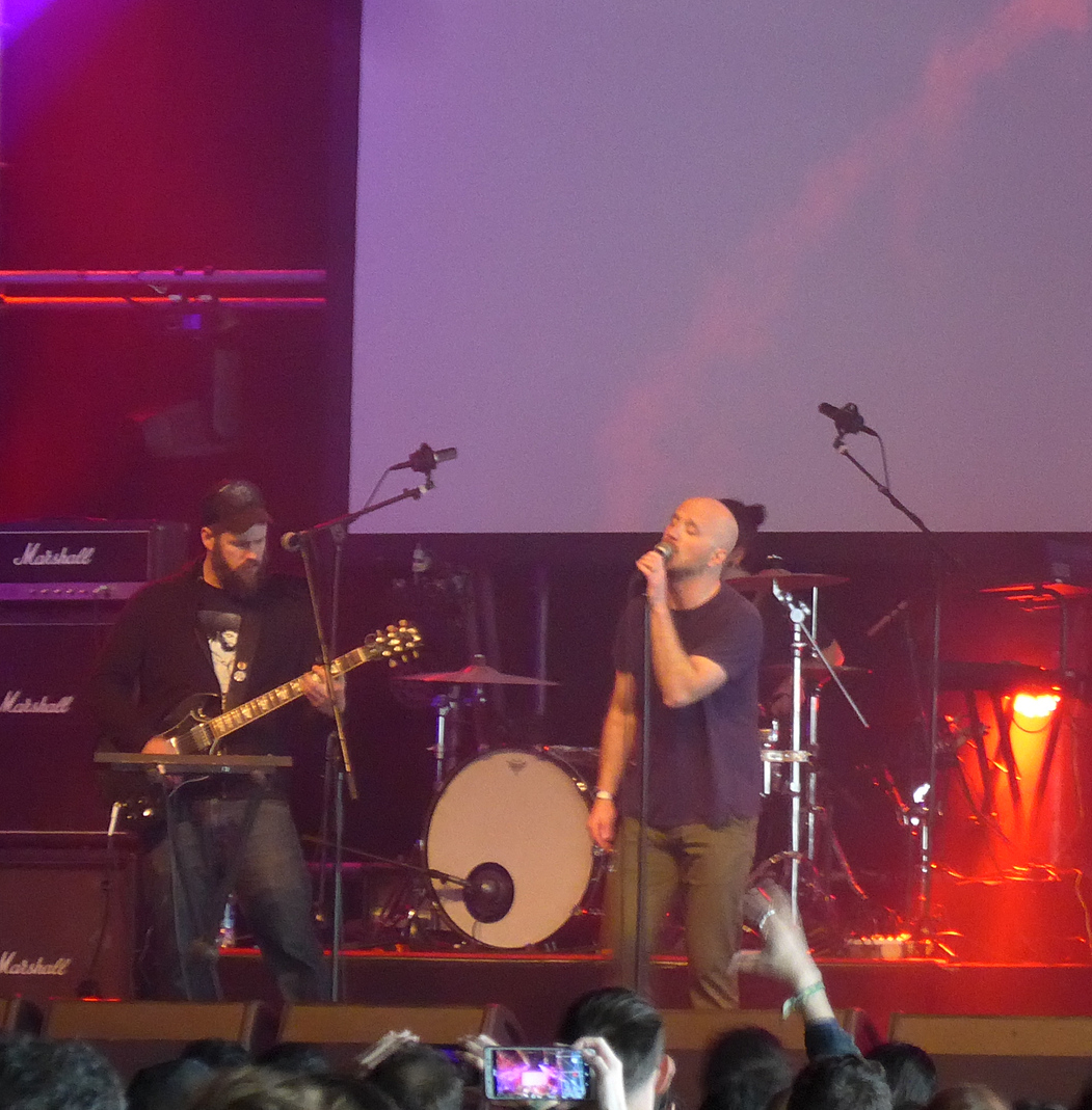 Shoegaze band Have a Nice Life performing a show in 2019